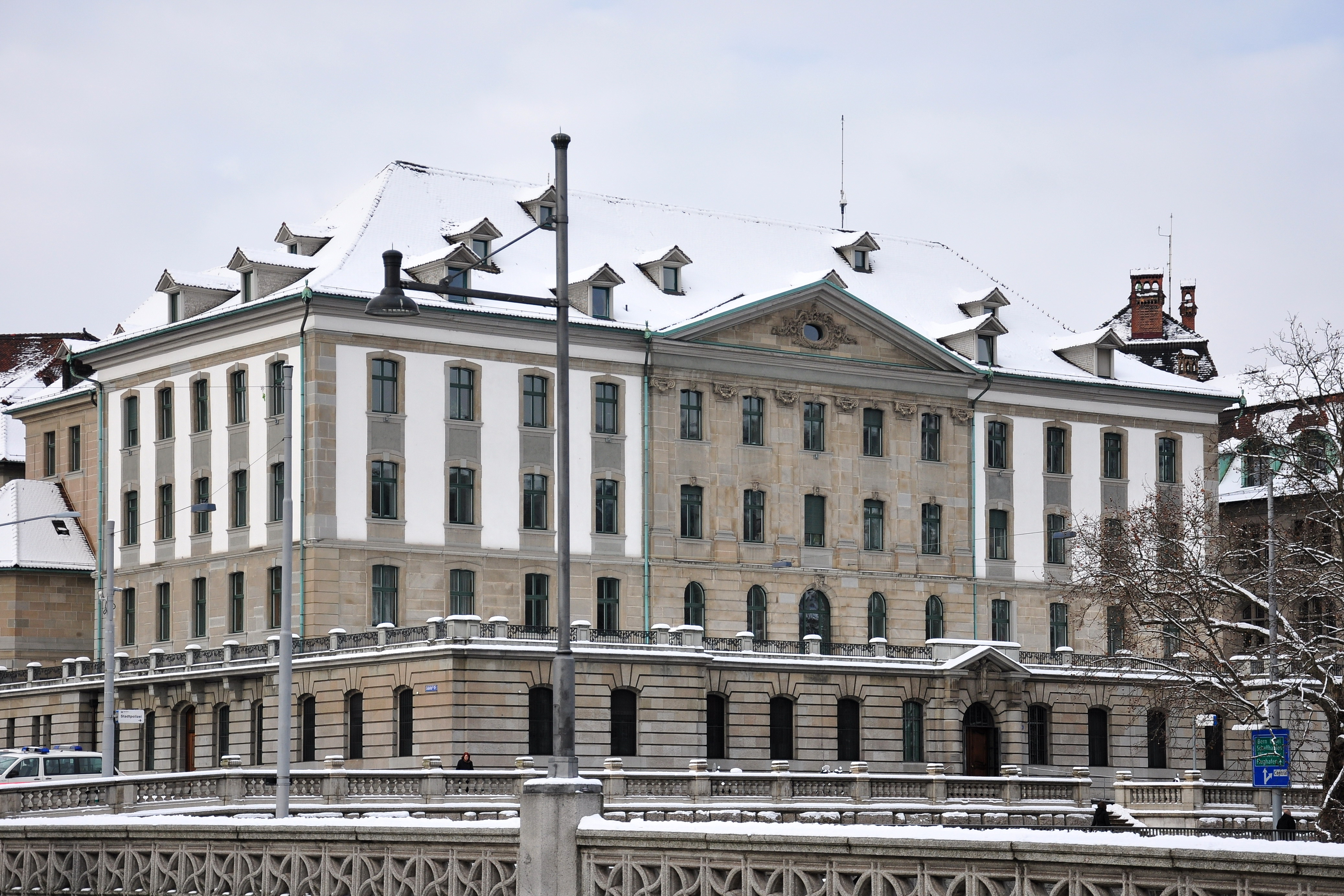 Zürich : Amtshaus I, where the Stadtpolizei (City Police) is located, the former Waisenhaus (orphanhouse) of the former Oetenbach Convent nearby the Limmat river.